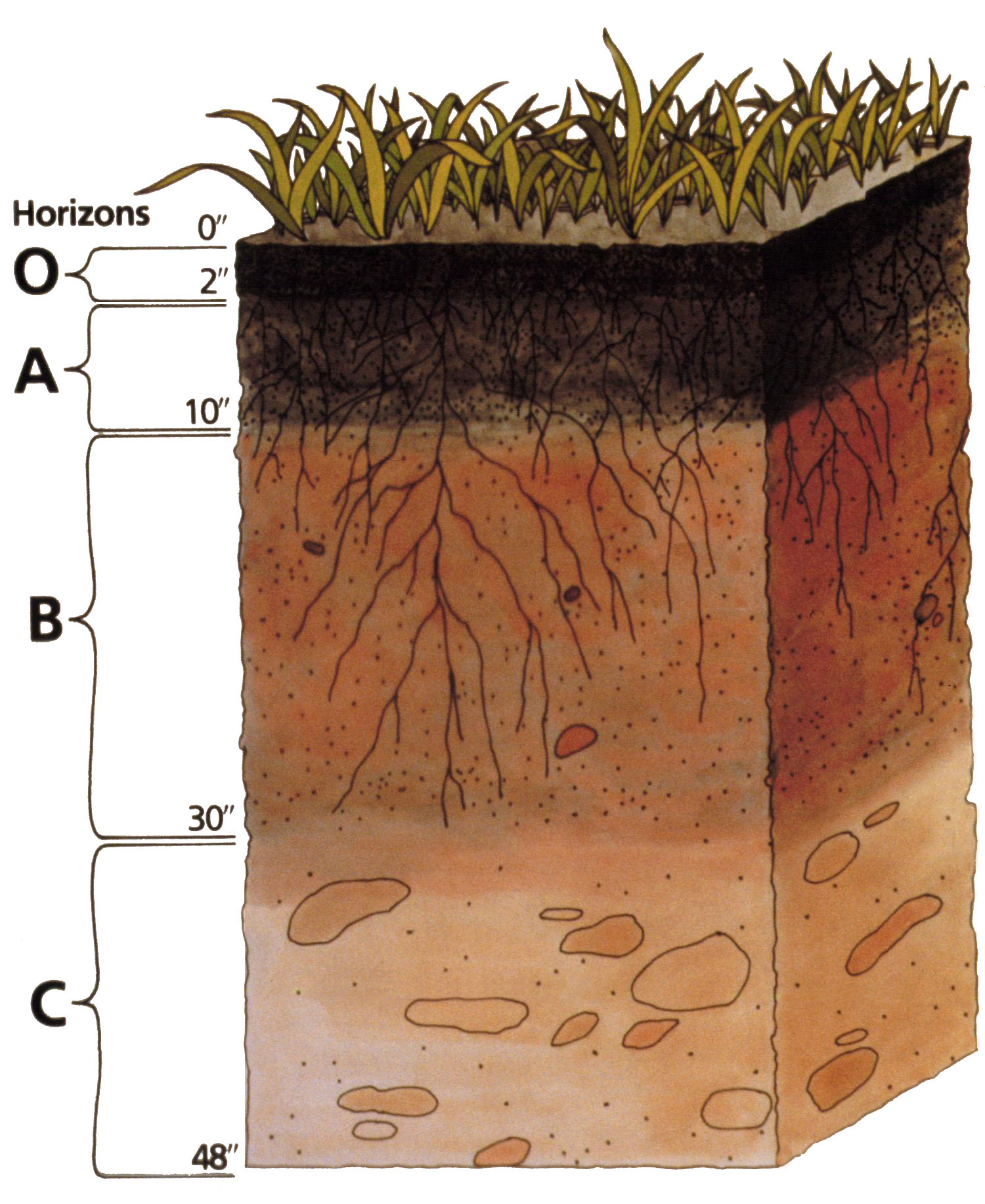 Soil profile. Units are inches.